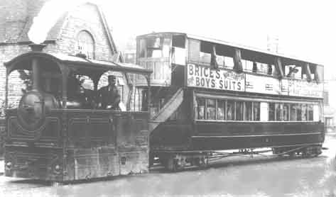 Photograph of the Wolverton and Stony Stratford tramway